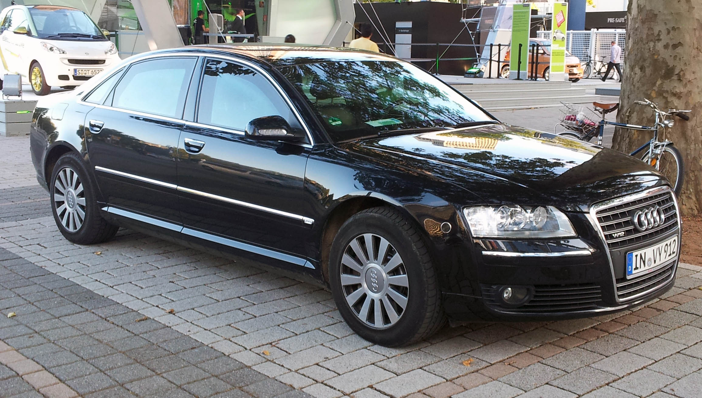 Audi A8 L W12 Security (D3/2nd series)